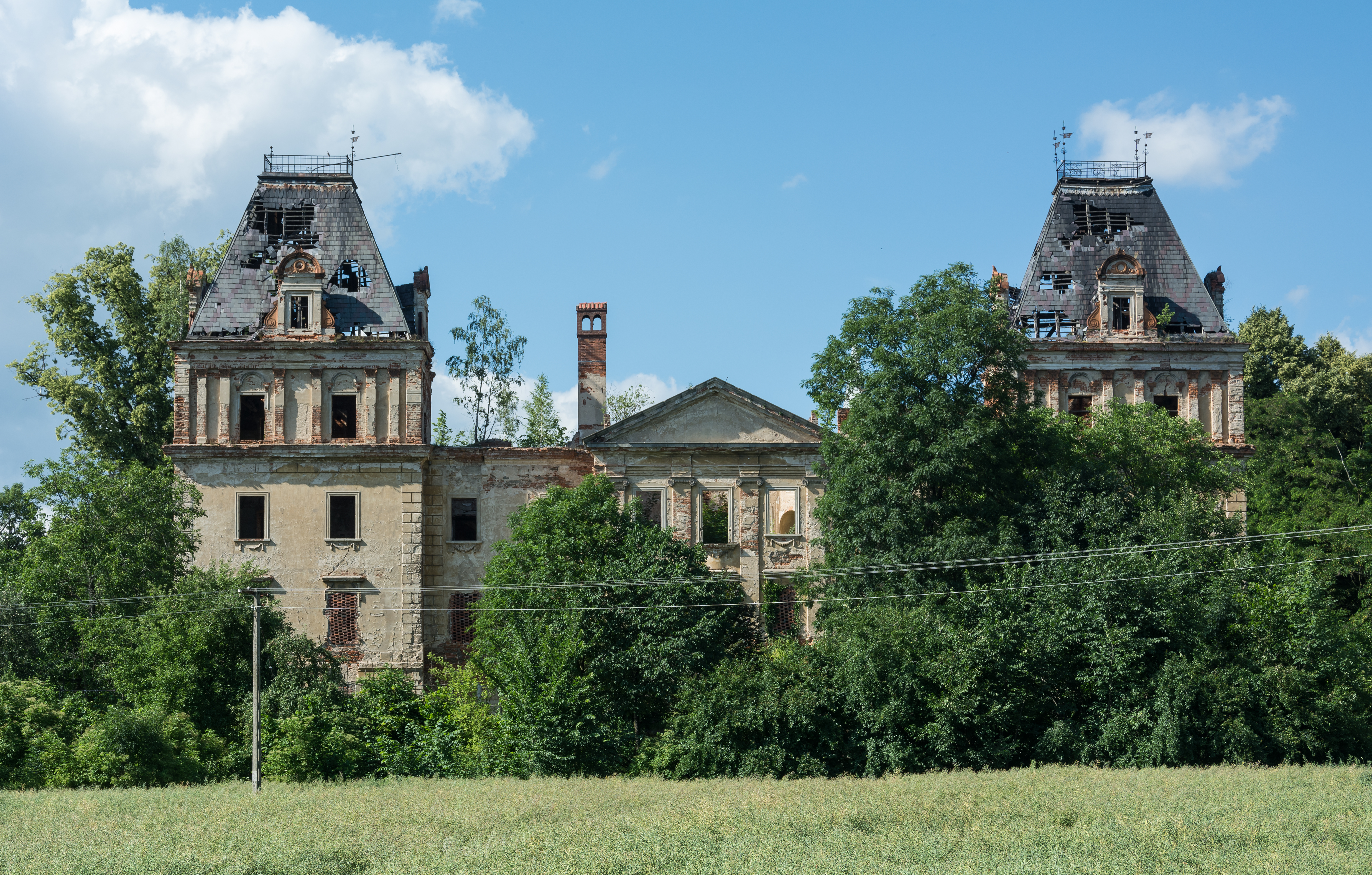 Palace in Stolec